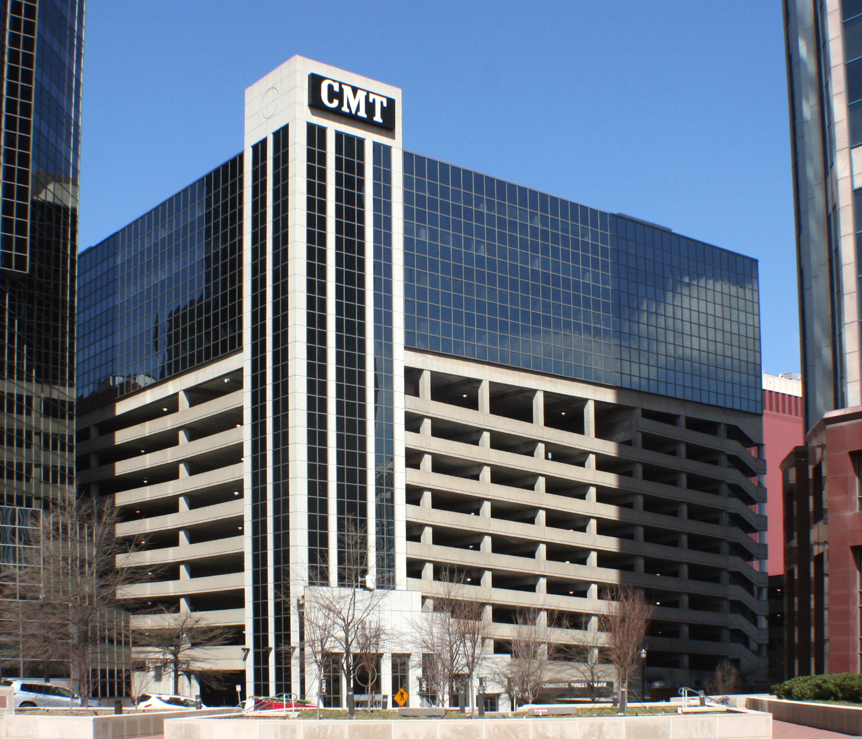 CMT Headquarters in Nashville, Tennessee